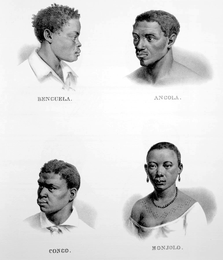 Slaves from Benguela, Angola, Congo and Monjolo. Voyage Pittoresque dans le Bresil. Traduit de l'Allemand (Paris, 1835; also published in same year in German). Reprinted in Viagem Pitoresca Através do Brasil (Rio de Janeiro, 1972), and in color from original water colors, in Viagem Pitoresca Através do Brasil (Editora Itatiaia Limitada, Editora da Universidade de Sao Paulo, 1989) [Both 1835 French and German original editions were published in black/white].